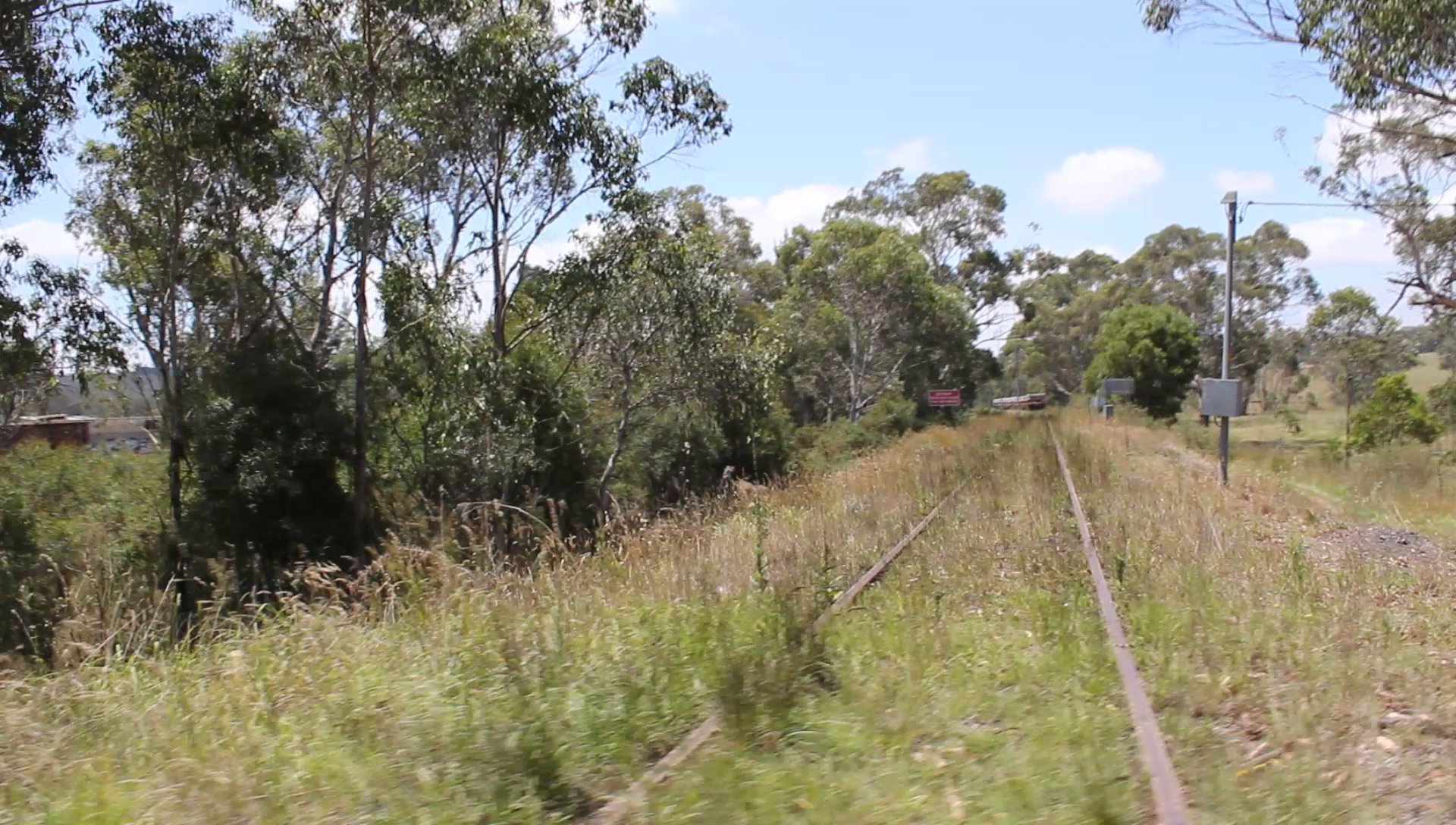 platform located on western side of track (here, left) according to